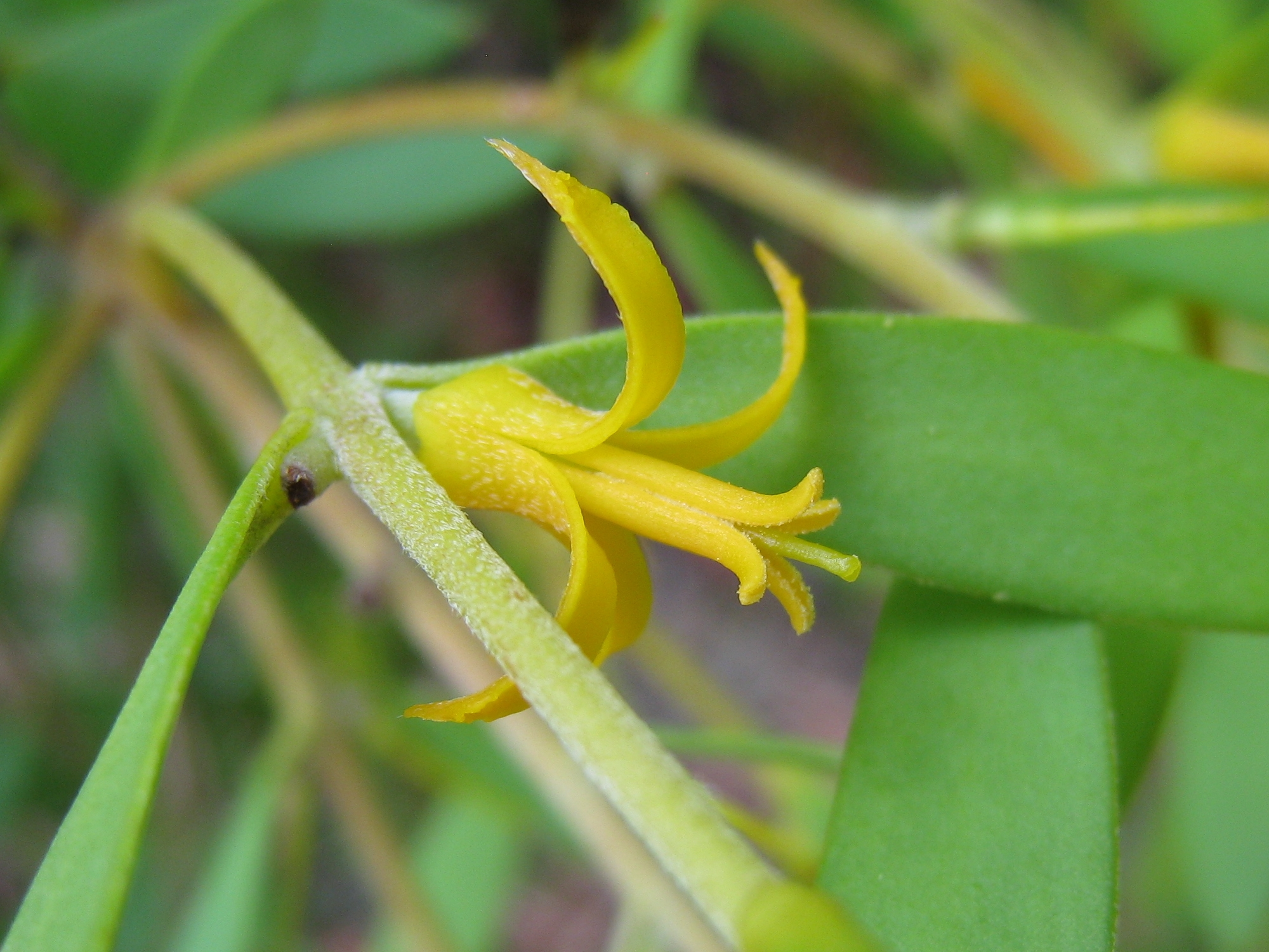 Persoonia lanceolata. Royal National Park, NSW Australia, March 2011.